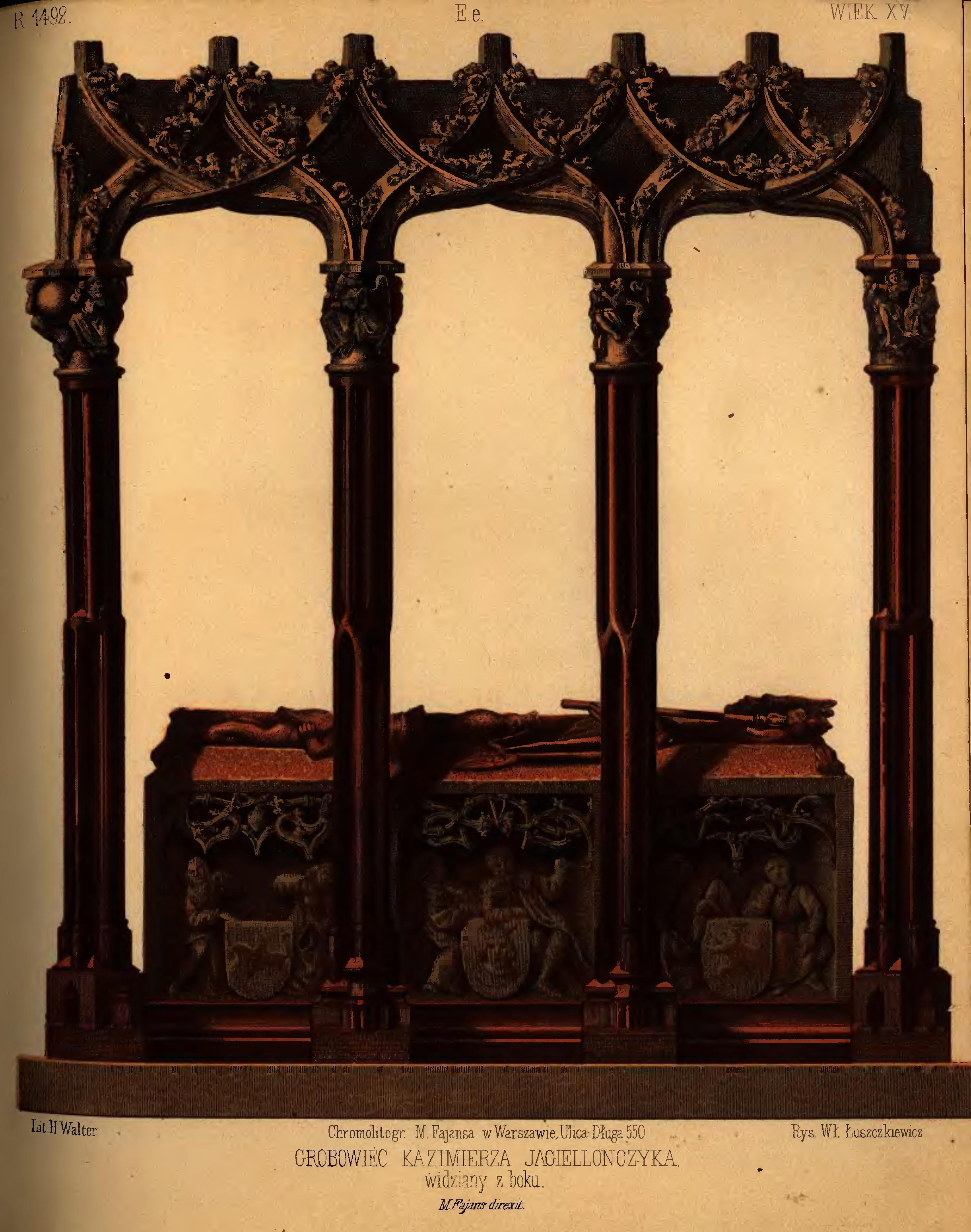 Tomb of Casimir IV Jagiellon, Wawel cathedral.